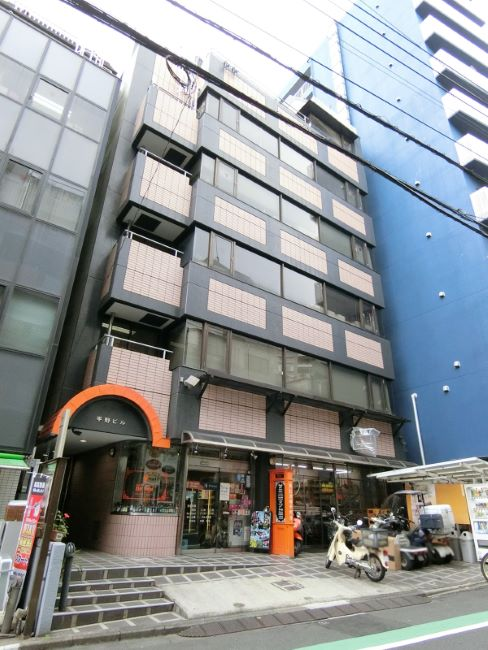 渋谷区神泉 平野ビル